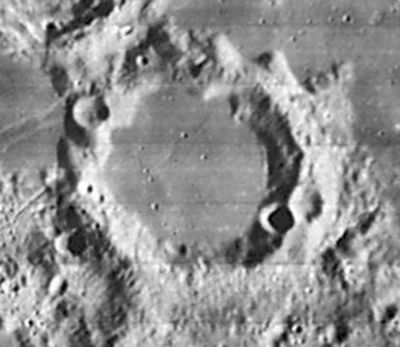 Mercator lunar crater - image LO-IV-131-h3